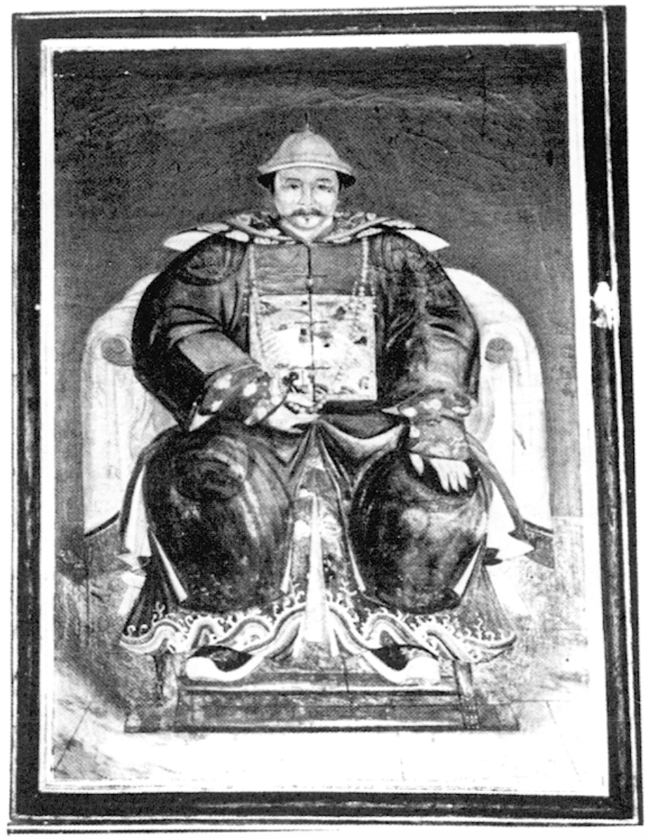 A 19th-century portrait of Han Bwee Kong, Kapitein der Chinezen of Surabaya